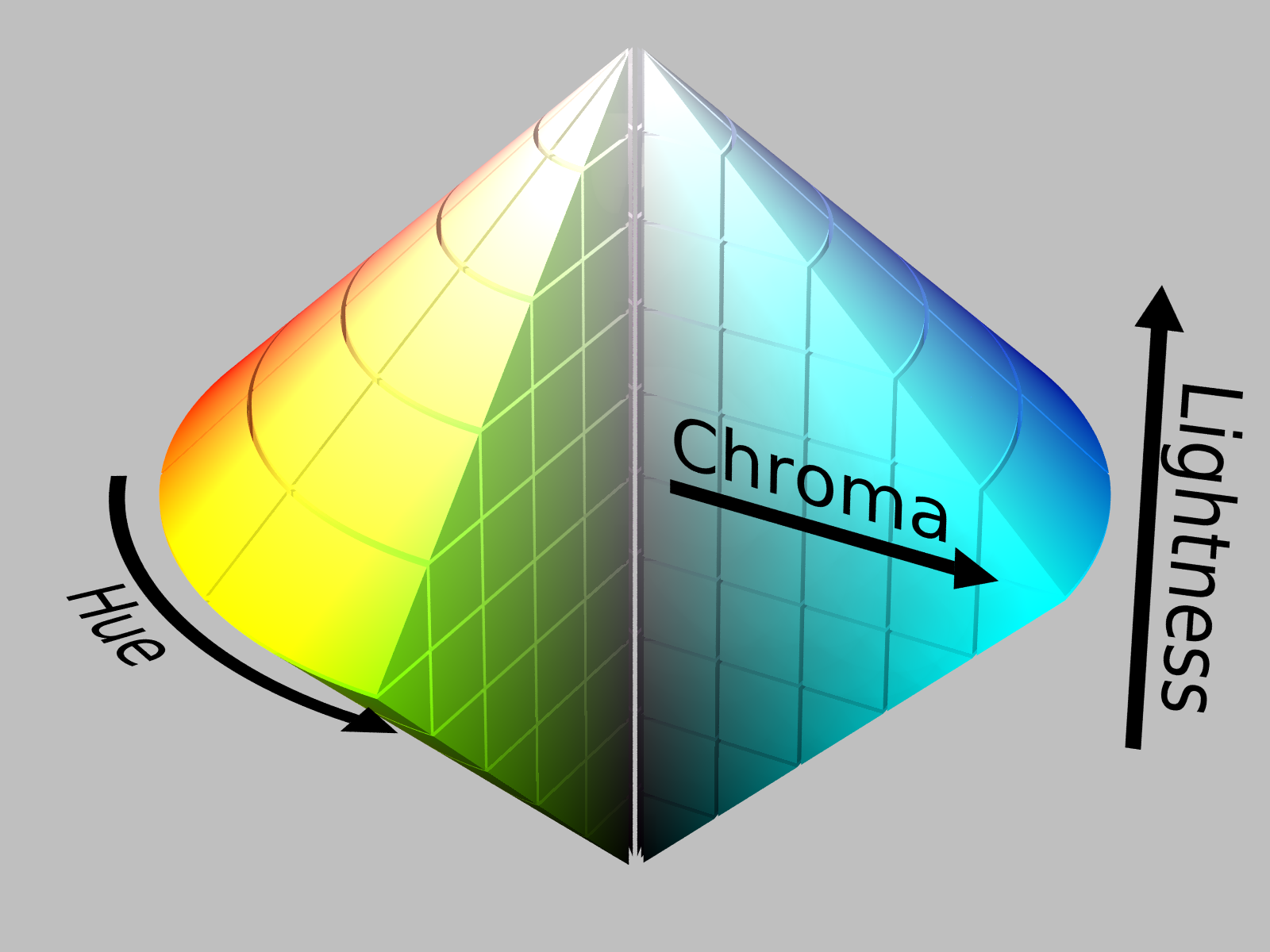 HSL and HSV are two cylindrical representations of the RGB gamut, created in the mid-1970s and used mostly in image editing and computer graphics. When HSL/HSV hue and HSL lightness/HSV value are plotted against chroma C – where C = max(R, G, B) − min(R, G, B) – the resulting color solid is a bicone or cone. For details, see the article HSL and HSV.